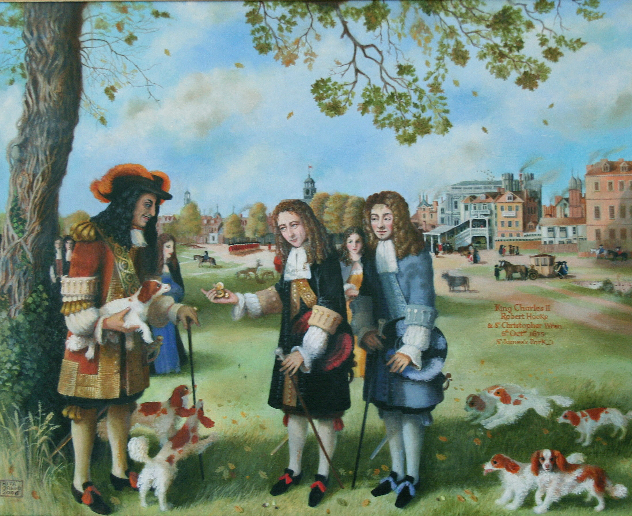 On 6th October 1675, Robert Hooke and his close friend and colleague Christopher Wren were walking in St. James's Park. King Charles II was out for a walk with his dogs and the Court. He called the two friends over to discuss inventions. Hooke is showing him a pocket watch for which he had invented the spring balance mechanism. In the background is the palace of Westminster and Horseguards Parade. The two men have removed their hats which was obligatory in the presence of the king.